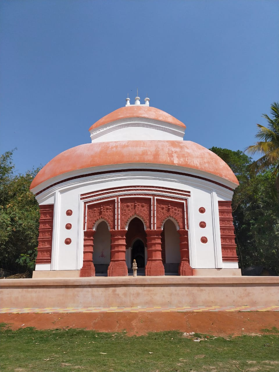 The renovated temple of Madangopal jiu in the village of Mellak, near Samta, Howrah district, West Bengal.